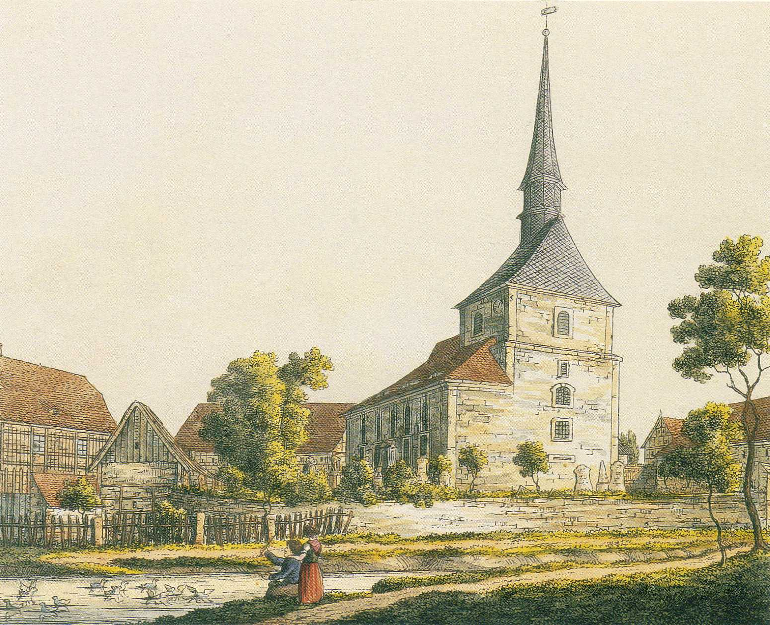 oldest known picture of Dresden-Leuben, Germany (1820)